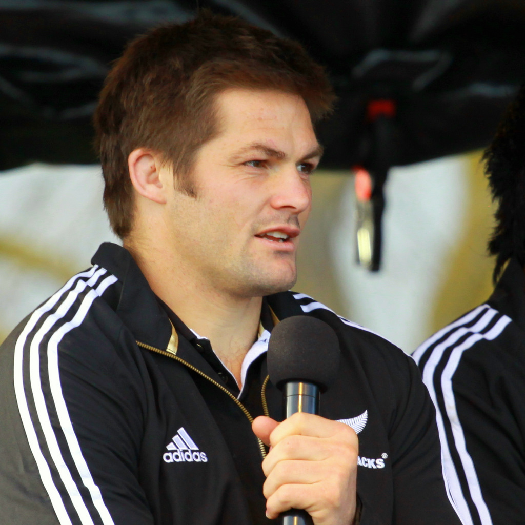 New Zealand rugby union player Richie McCaw and the rest of the All Blacks visit Christchurch during the Rugby World Cup.